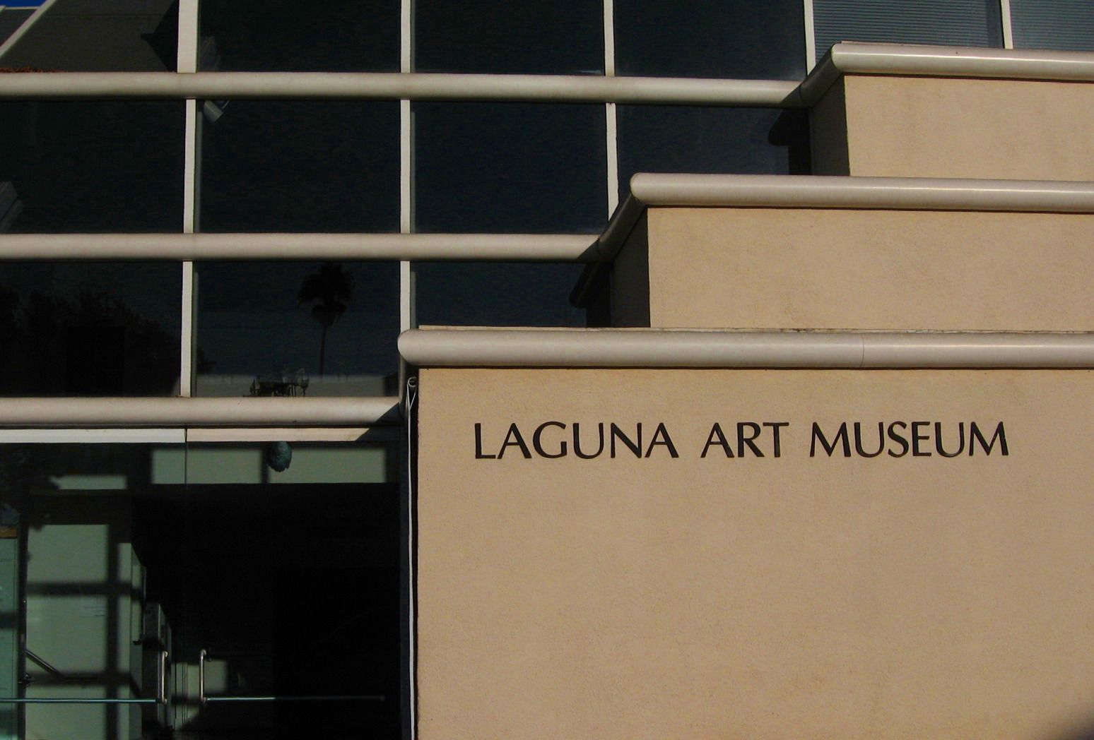 Exterior view of Laguna Art Museum in Laguna Beach, California.